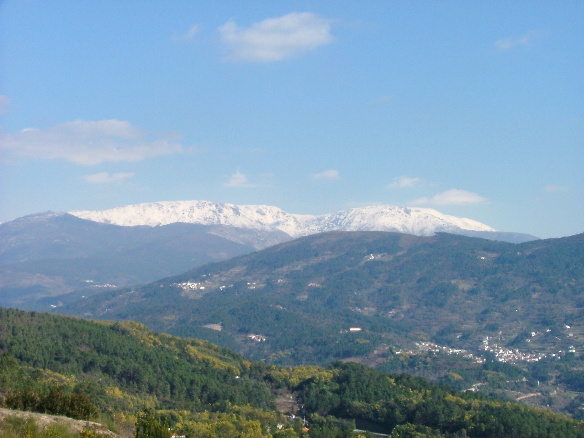 Sight of the southwestern source of the mountain range Serra da Estrela from the Alva valley. The central bulk covered by snow. It is possible to see São Gião as the accumulation in the right inferior field.